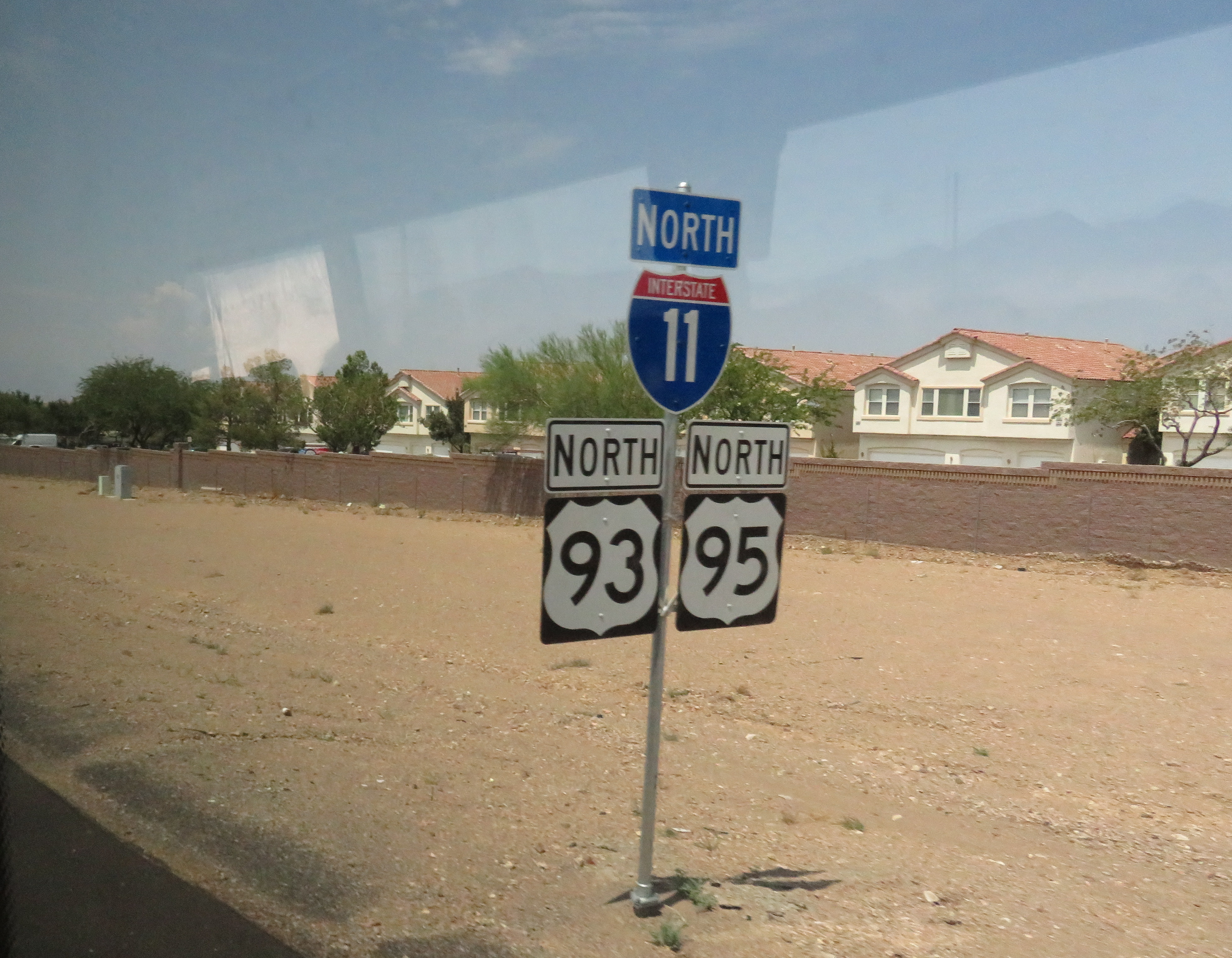 Interstate 11 shield along with US 93/US 95 on I-11 Northbound near Henderson.